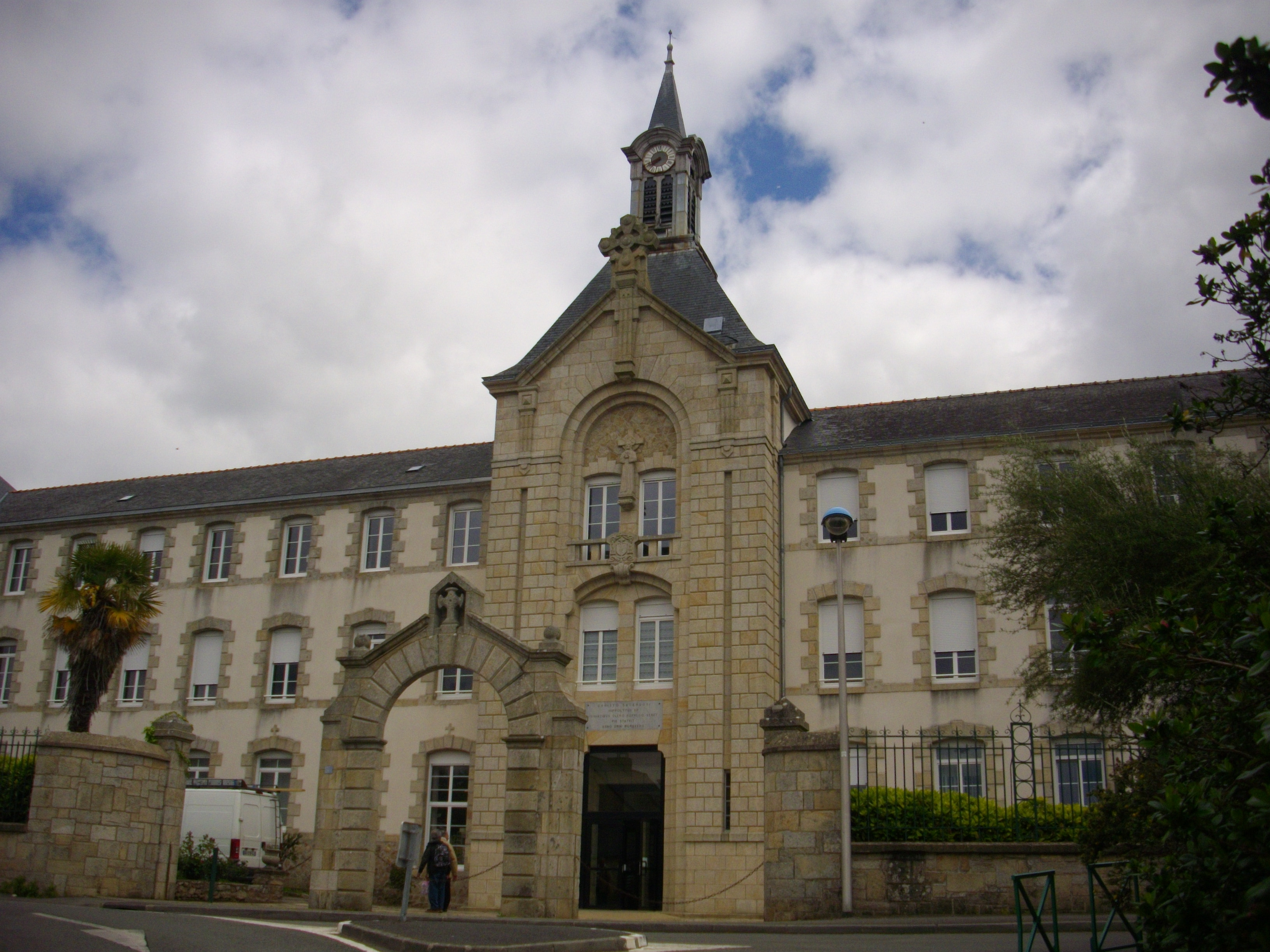 Seminary of Vannes (Morbihan, France)